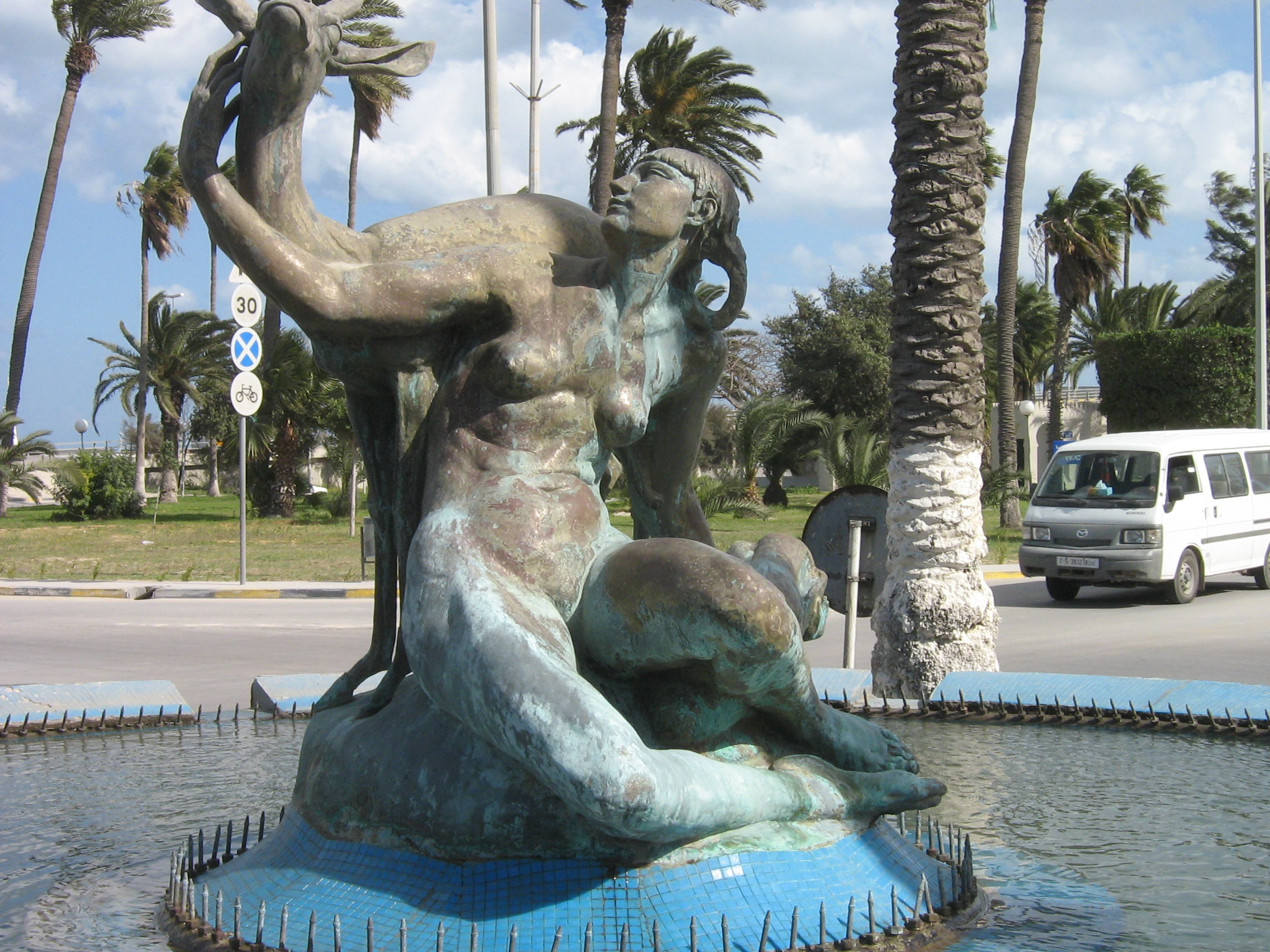 Fountain and sculpture in Gazelle Square or "Maidan Al gazala", in downtown Tripoli, Libya.